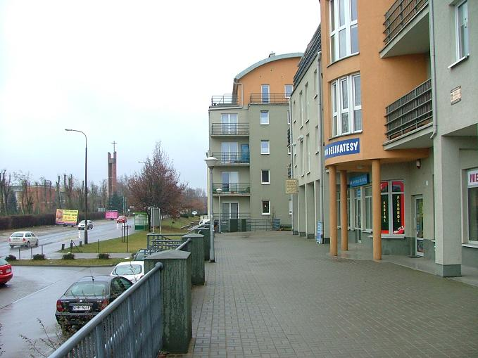 Poznan - Naramowice District. Church.